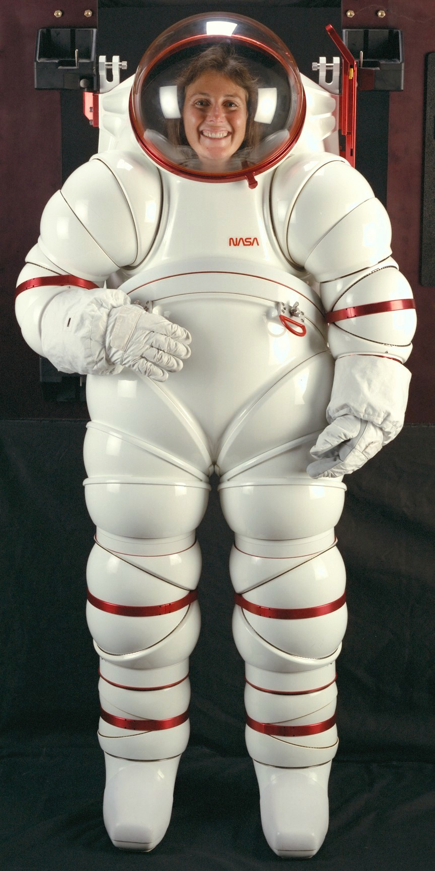 NASA Ames AX-5 rigid spacesuit.